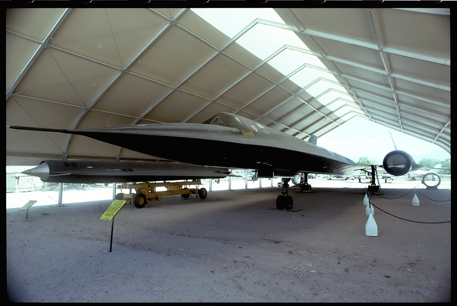 Photo of SR-71 (right) and D-21 drone (left) at Pima Air & Space Museum, Tucson, Arizona